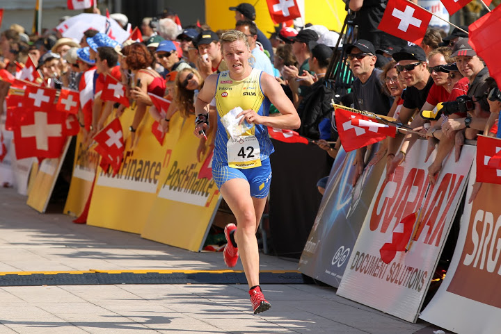 WOC 2012, sprint